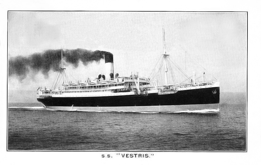 Lamport & Holt Line postcard of SS Vestris